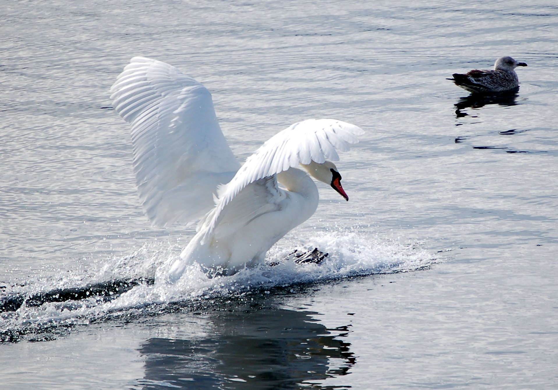 The Mute Swan (Cygnus olor)